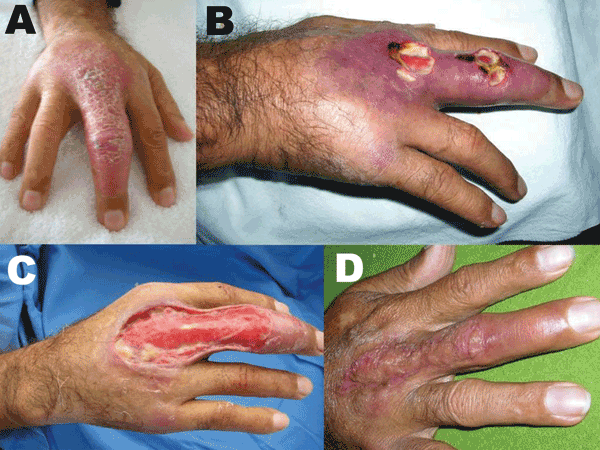 Buruli ulcer on the hand of a patient from Peru. A) Nonulcerative edematous lesion on the right middle finger as first seen; B) ulcerated lesions on the right middle finger ≈4 weeks later; C) extensive debridement, 5.5 weeks after first seen; D) cured lesion 5 months after first seen, 1 month after autologous skin graft.